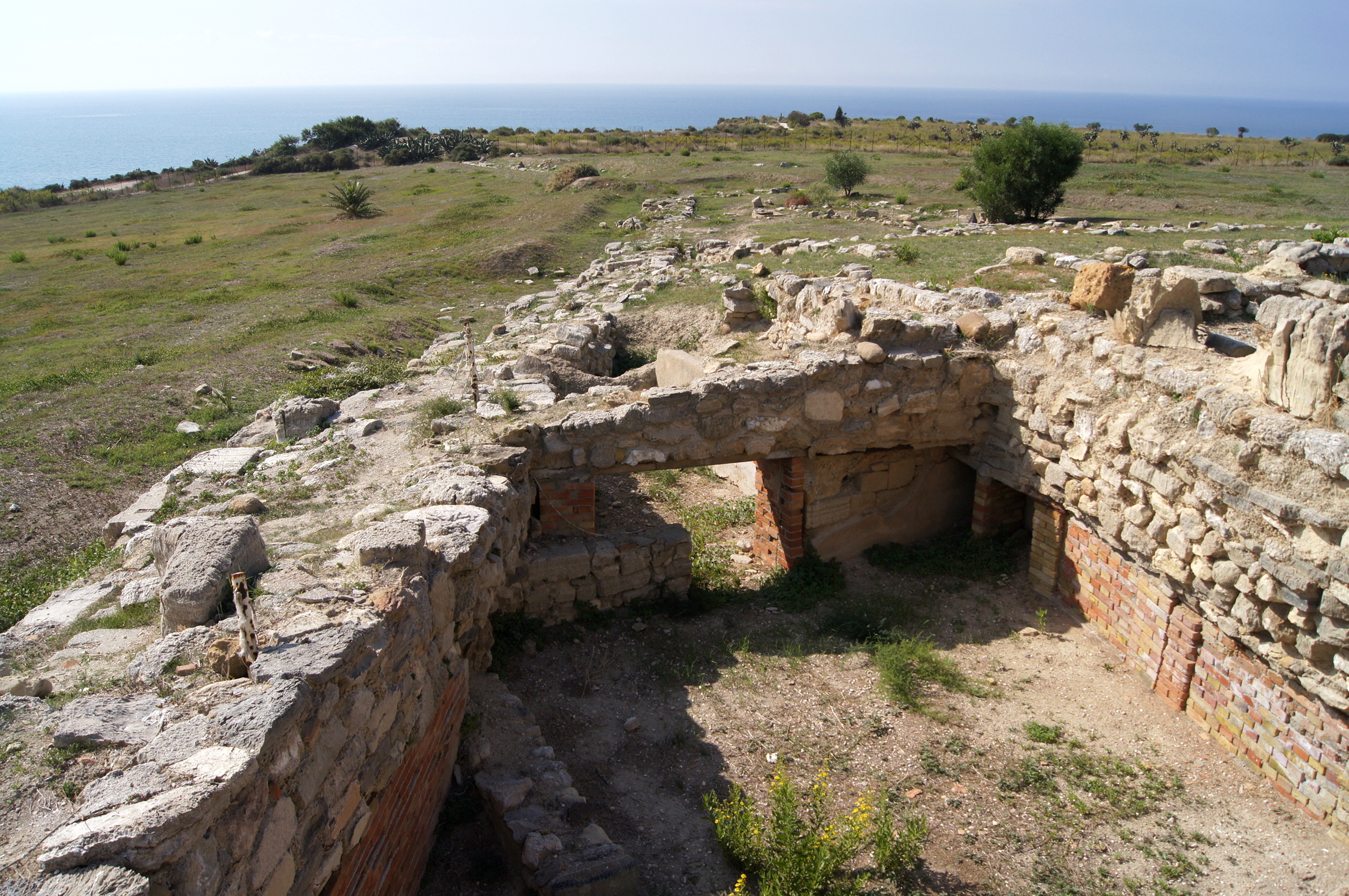 Last Wall of Heraclea Minoa